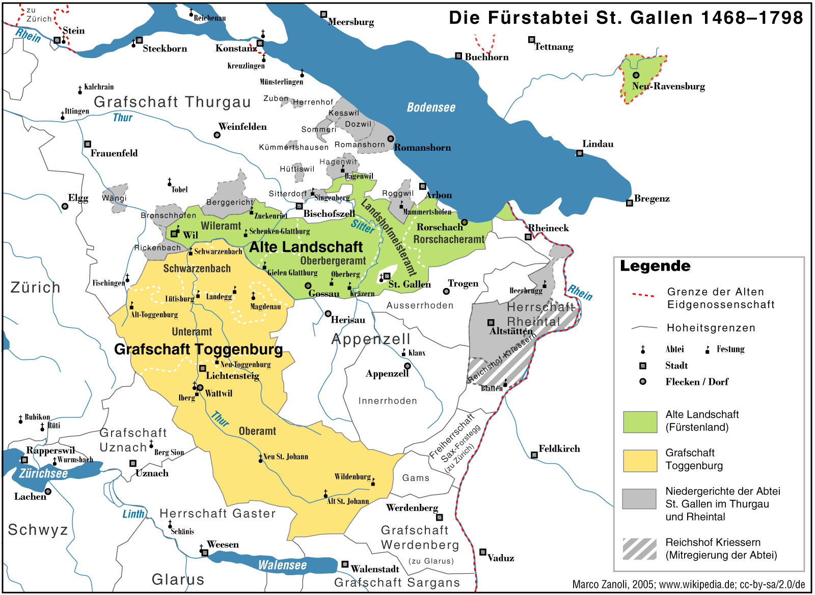 The territories of the Prince-Abbey of Saint Gall, 1468–1798, without the exclaves near Freiburg im Breisgau.The Abbey of Saint Gall exercised full sovereignty over the areas in green and yellow but only limited jurisdiction over the areas in grey.